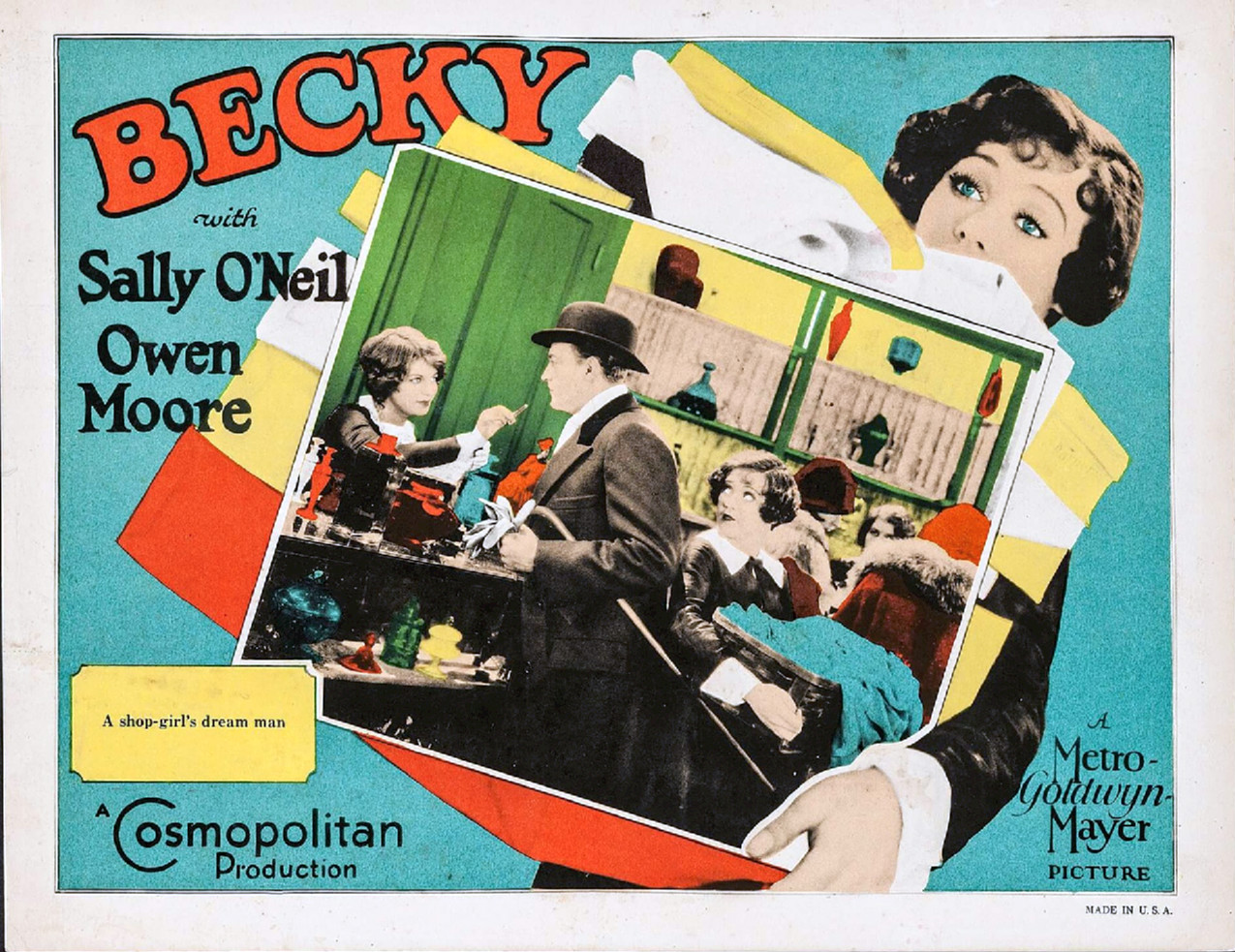 Lobby card for the American comedy film Becky (1927). There are no copyright marks. At bottom right is Made in USA.